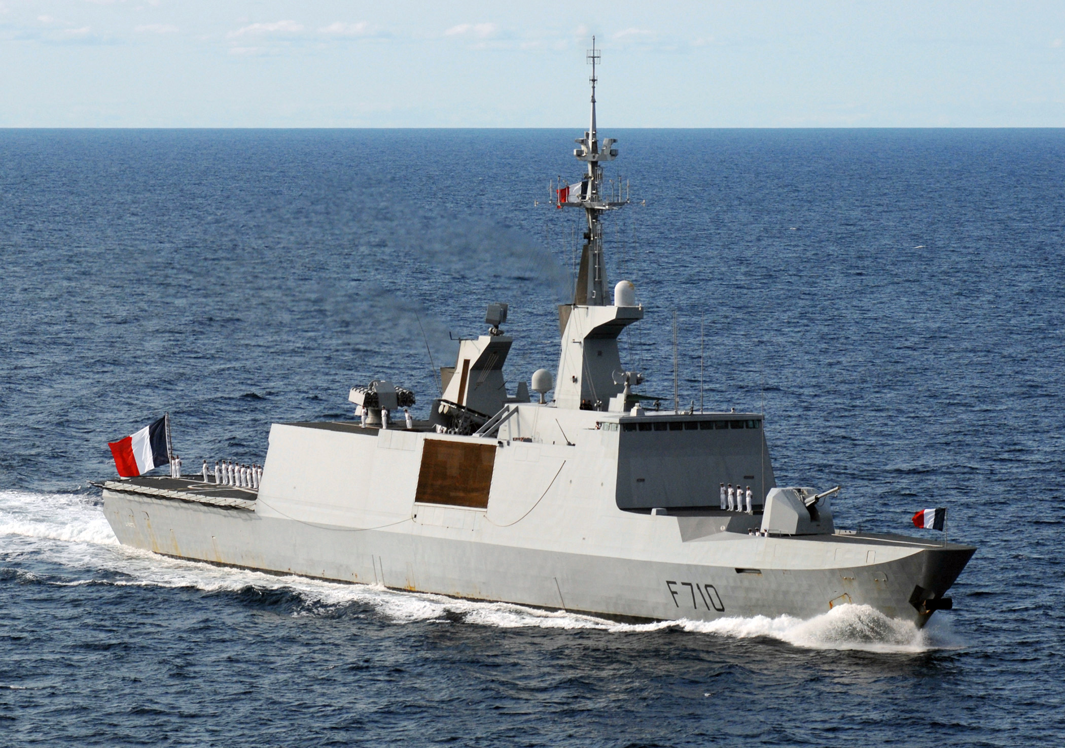 French frigate La Fayette (F-710) approaches the port side of Nimitz-class aircraft carrier USS Harry S. Truman (CVN 75). Truman is underway participating in the composite training unit exercise in preparation for deployment to the Persian Gulf.